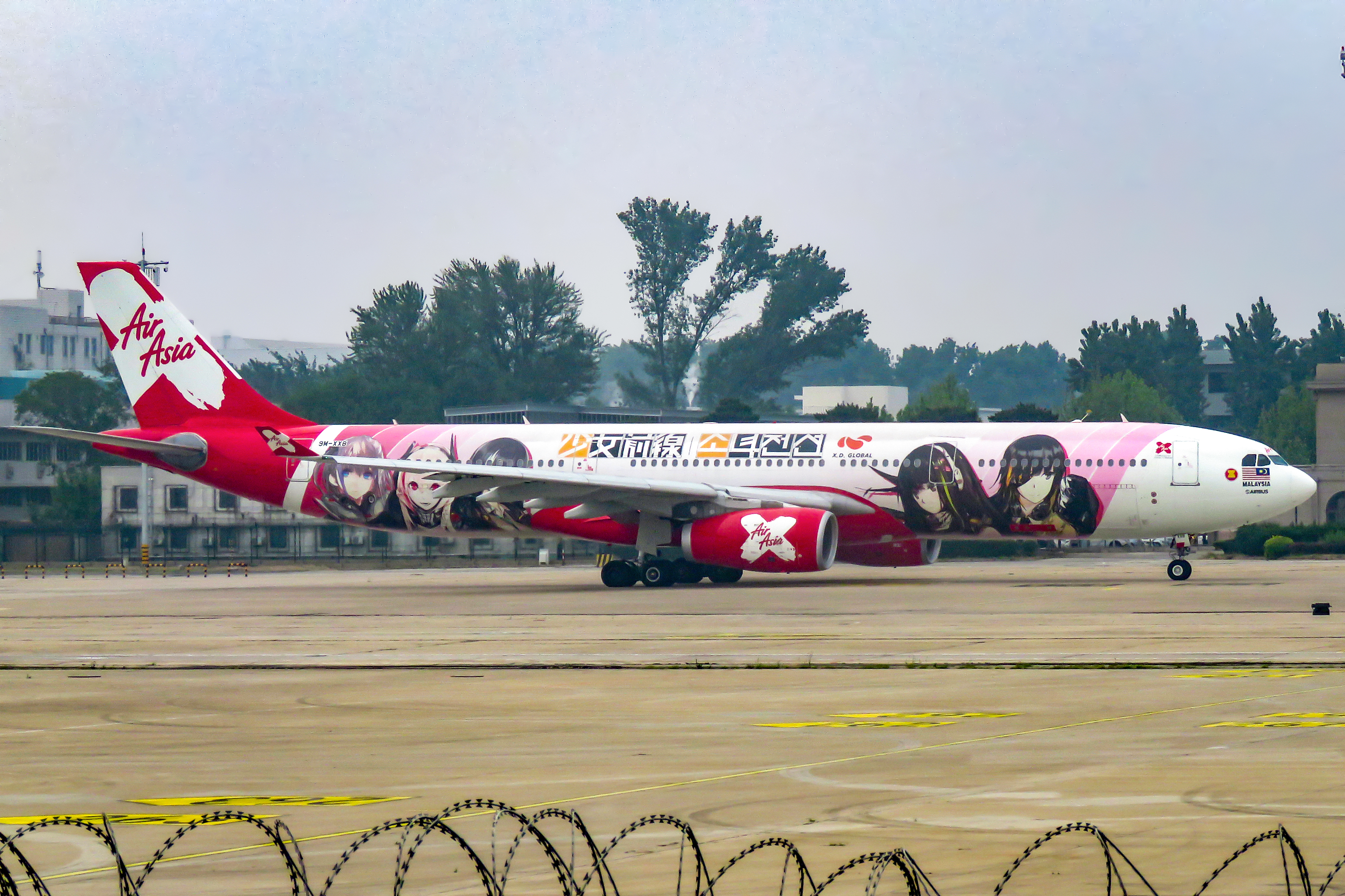 Xanadu 317 to Kuala Lumpur, with "Girls' Frontline" livery. At least there is daylight...